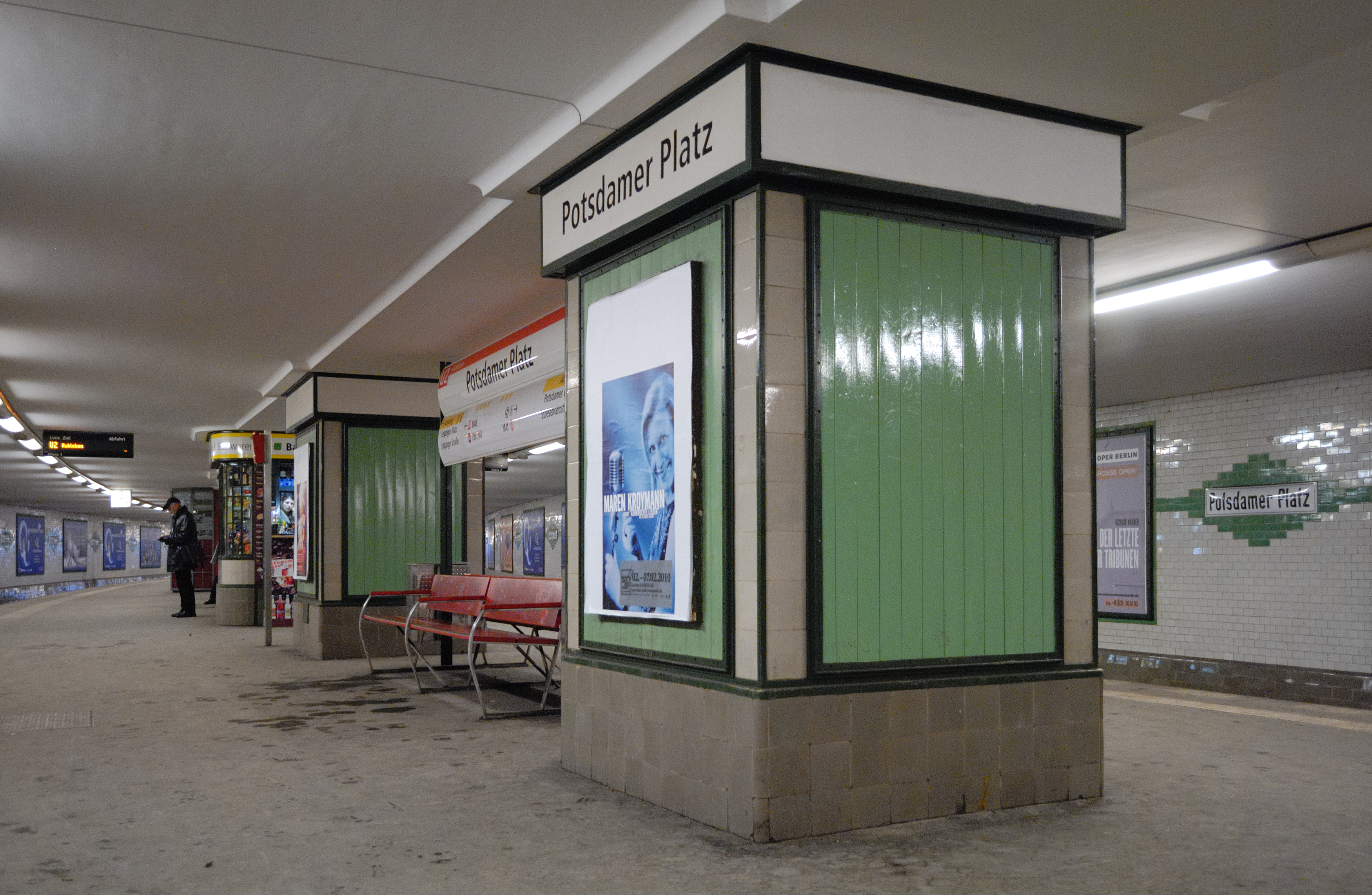 Berlin U-Bahn station Potsdamer Platz. (Geolocation estimated, there was no GPS signal underground. The viewing direction is approximately northeast.)